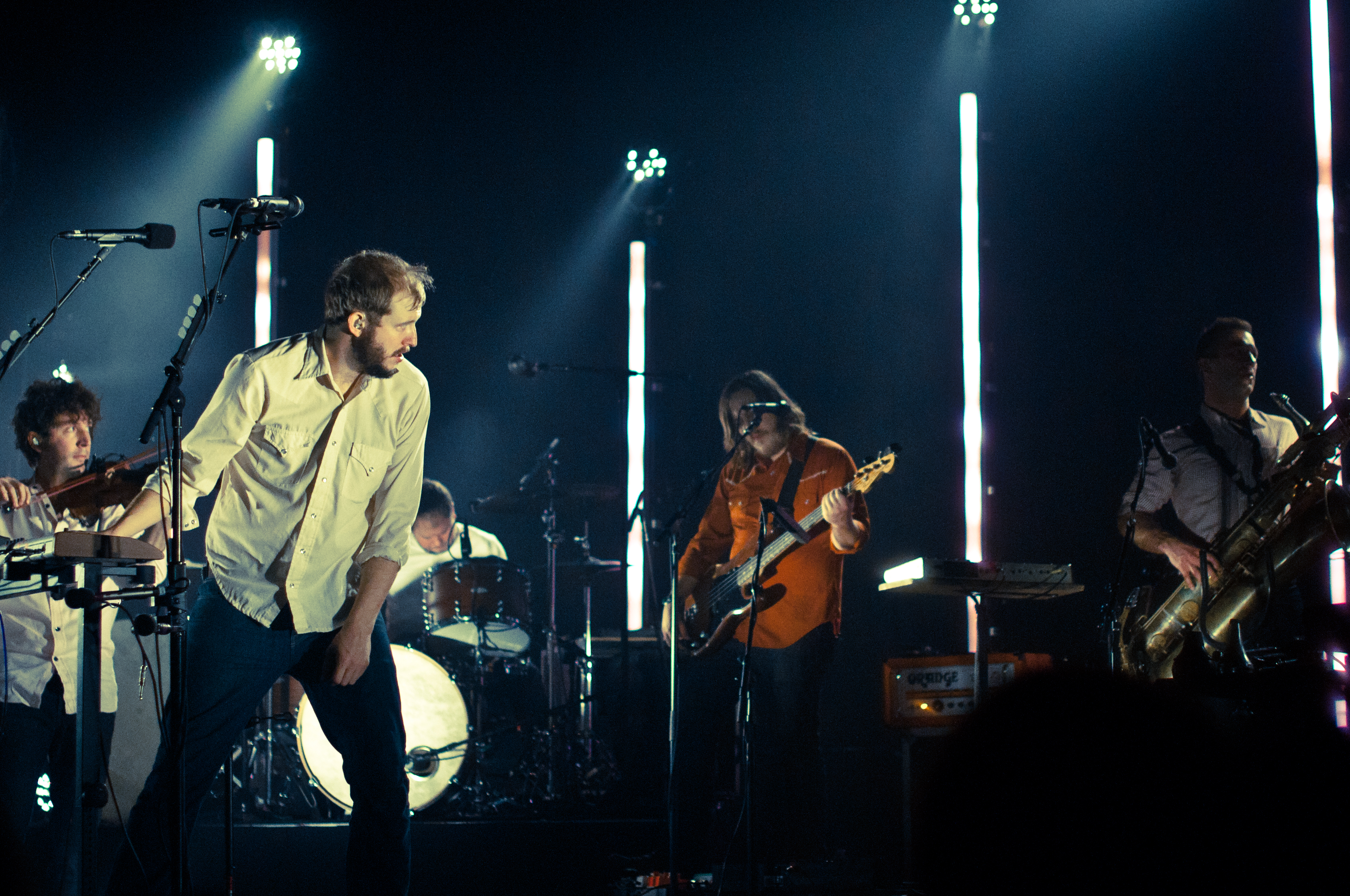 Bon Iver